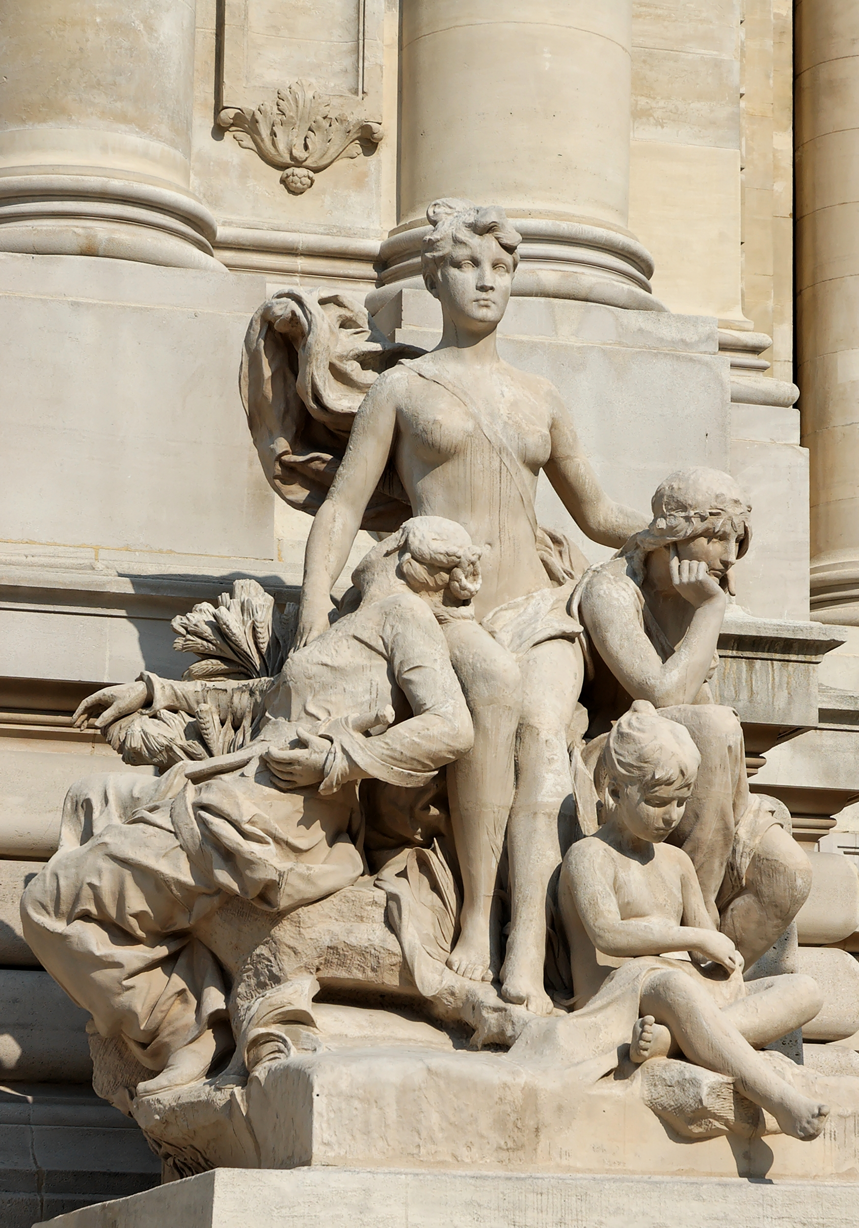 La Seine et ses affluents (The Seine and its tributaries).